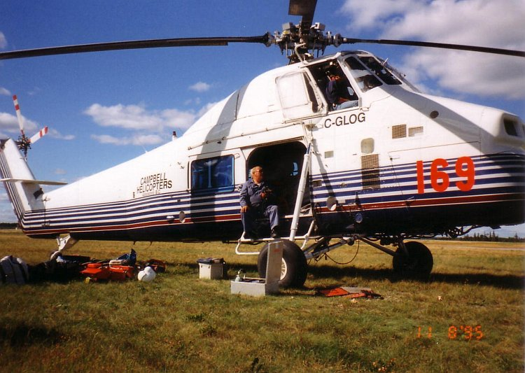 I took this photo of a S-58T in Dryden ON in 1995